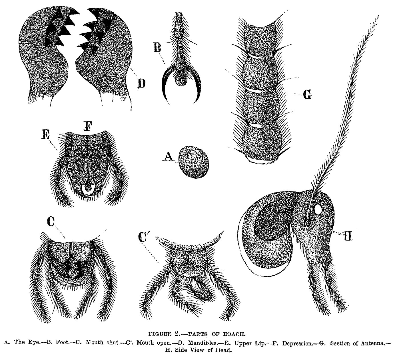 "Figure 2.—Parts of roach. A. The Eye.—B. Foot.—C. Mouth shut.—C'. Mouth open.—D. Mandibles.—E. Upper lip.—F. Depression.—G. Section of antenna.—H. Side view of head." From context, this is Periplaneta americana